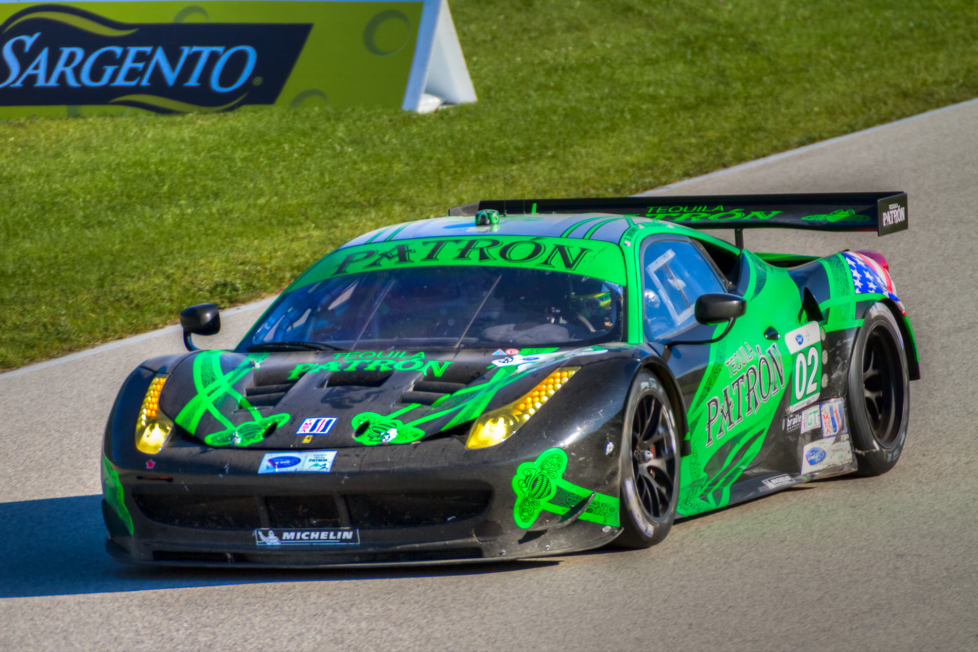 Guy Cosmo in the Extreme Speed Motorsports Ferrari 458 Italia GTC at the 2012 Road Race Showcase